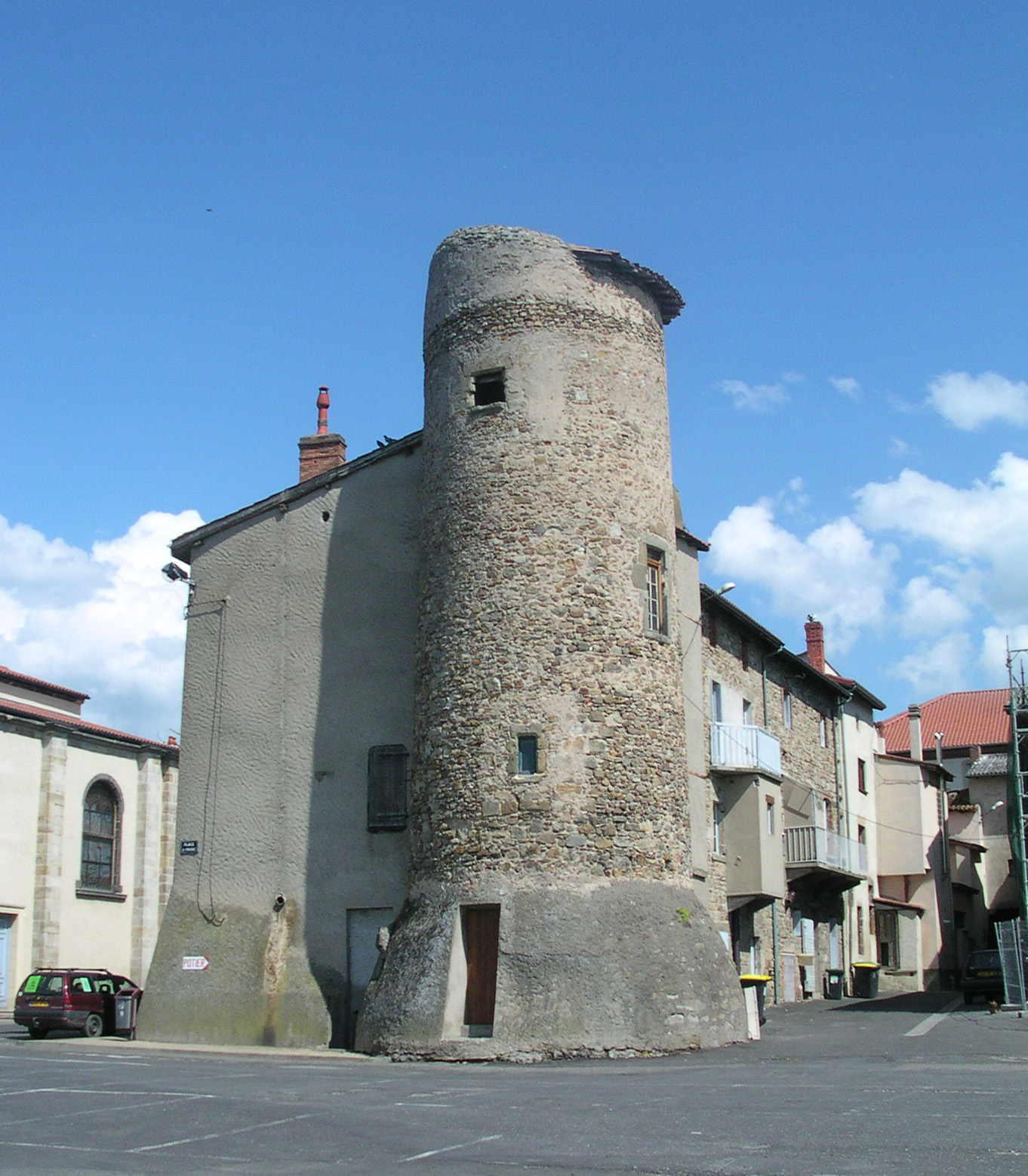 Lezoux (Puy-de-Dôme : tower remining of the protection wall Auteur/Author Romary Avril/April 2006